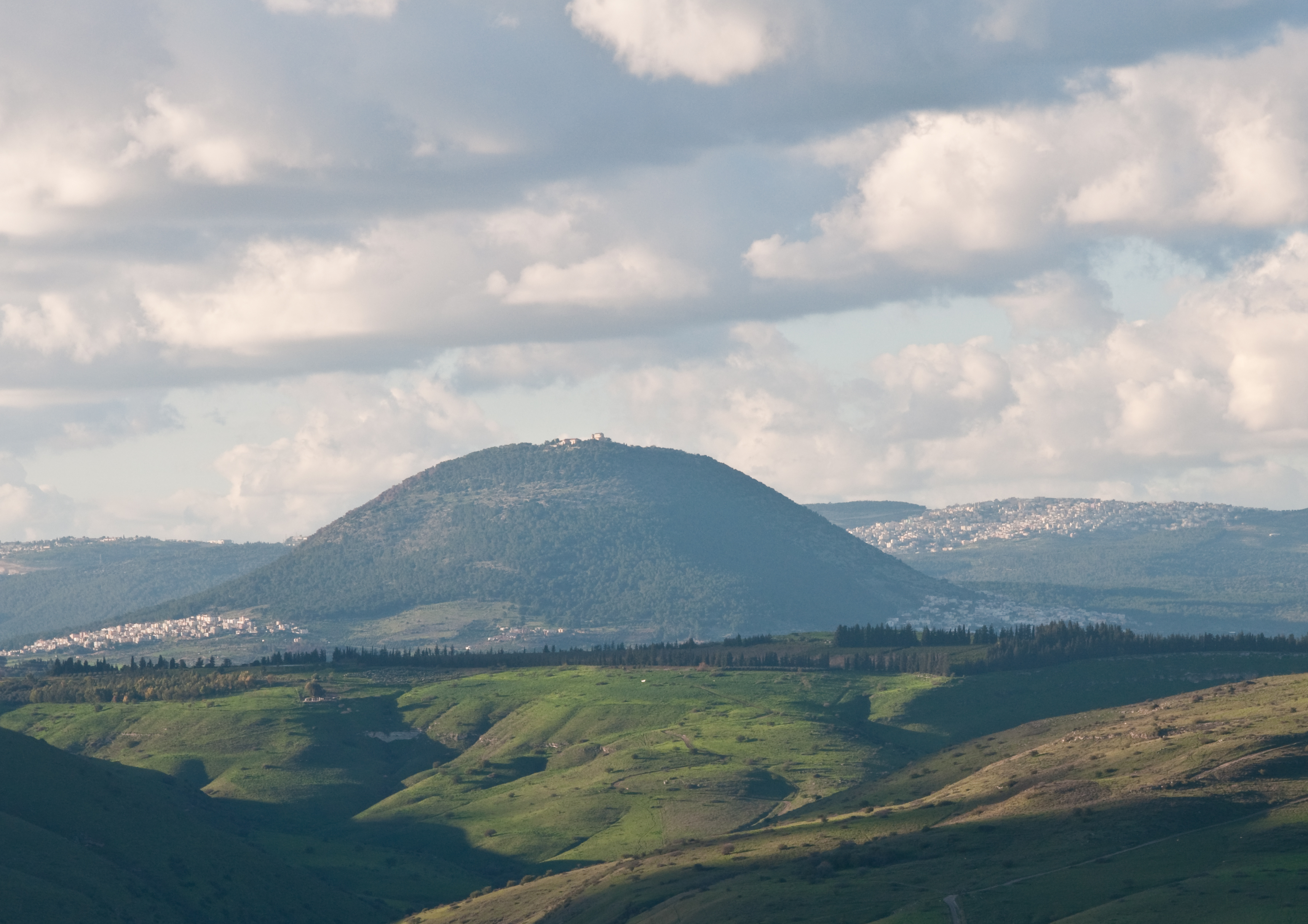 Israelbatch1-18 Mount Tabor view from Belvoir Fortress Israel